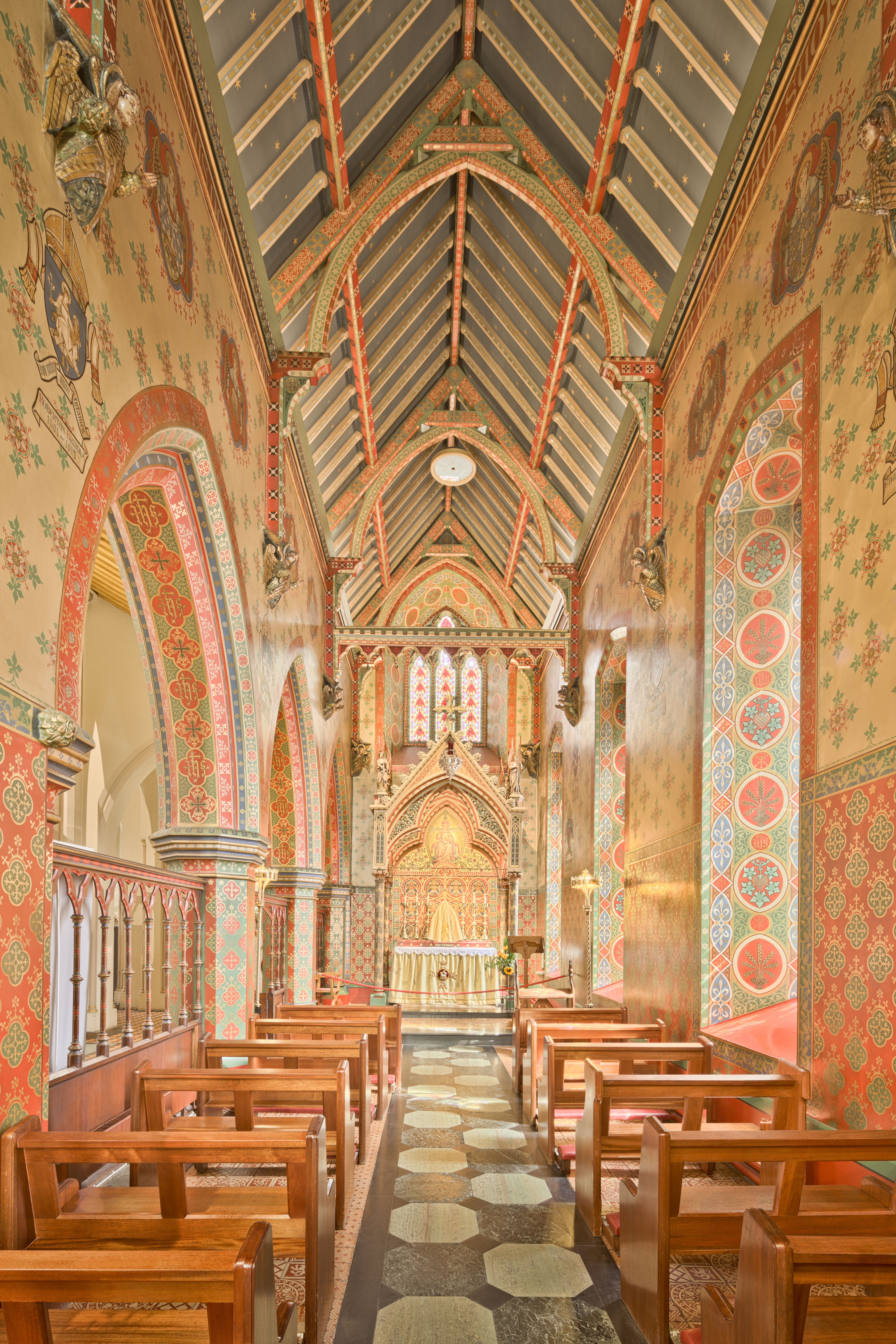 Here is a photograph taken from The Blessed Sacrament Chapel inside Nottingham Cathedral (The Cathedral Church of St Barnabas). Located in Nottingham, Nottinghamshire, England, UK.